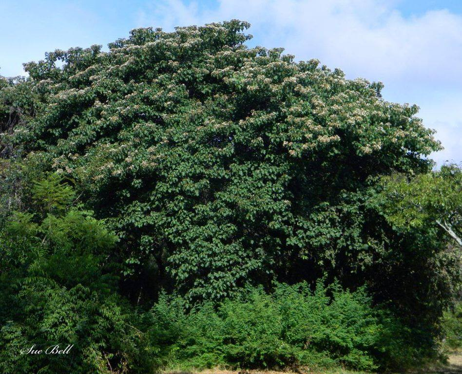 Crown/foliage of Cordia africana cultivated in Harare Botanical Garden, Zimbabwe